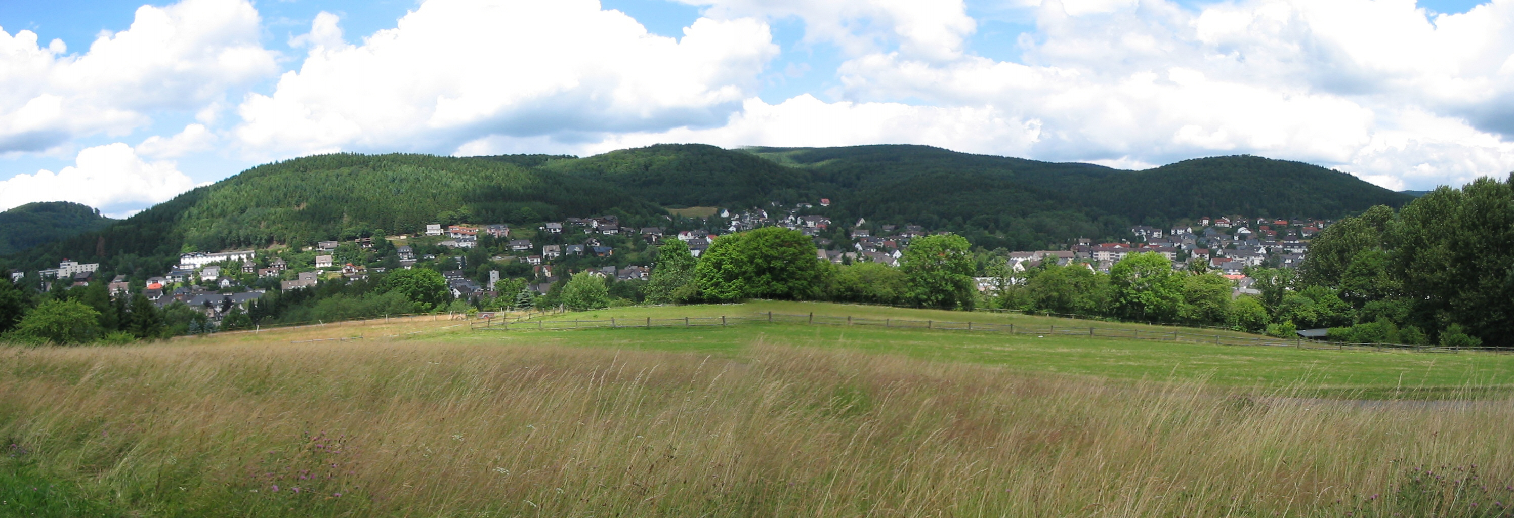 Panorama von Bad Laasphe / panorama of Bad Laasphe